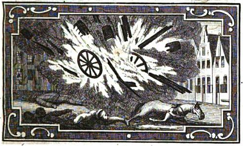 Gunpowder disaster at Wesel, Germany 12 juli 1642